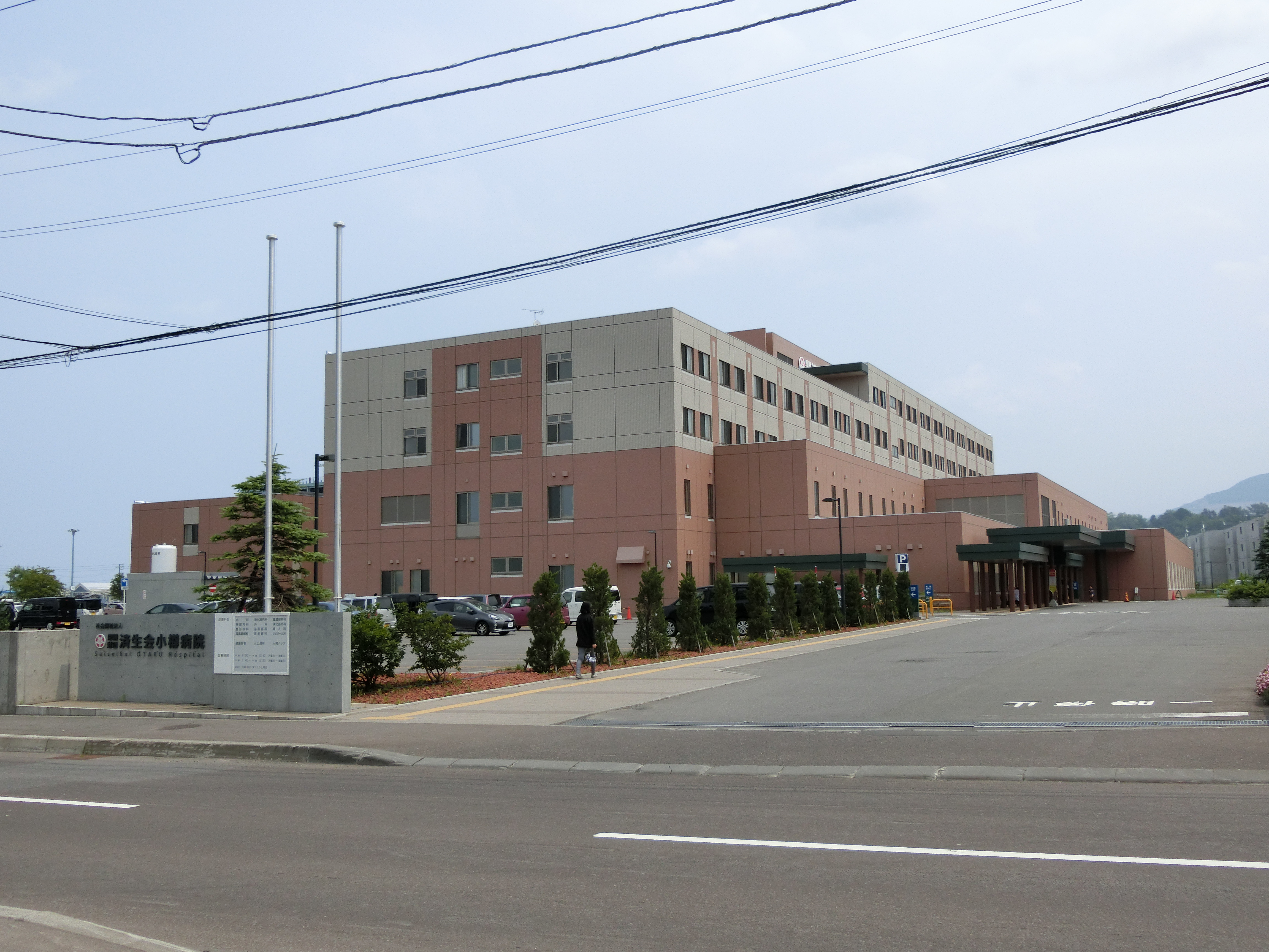 Saiseikai Otaru Hospital located in Chikko, Otaru, Hokkaido